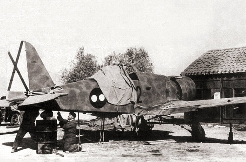 Some mechanics verifying the tail ailerons of the the personal Fiat G.50 "1-2" of Capitain Roveda.